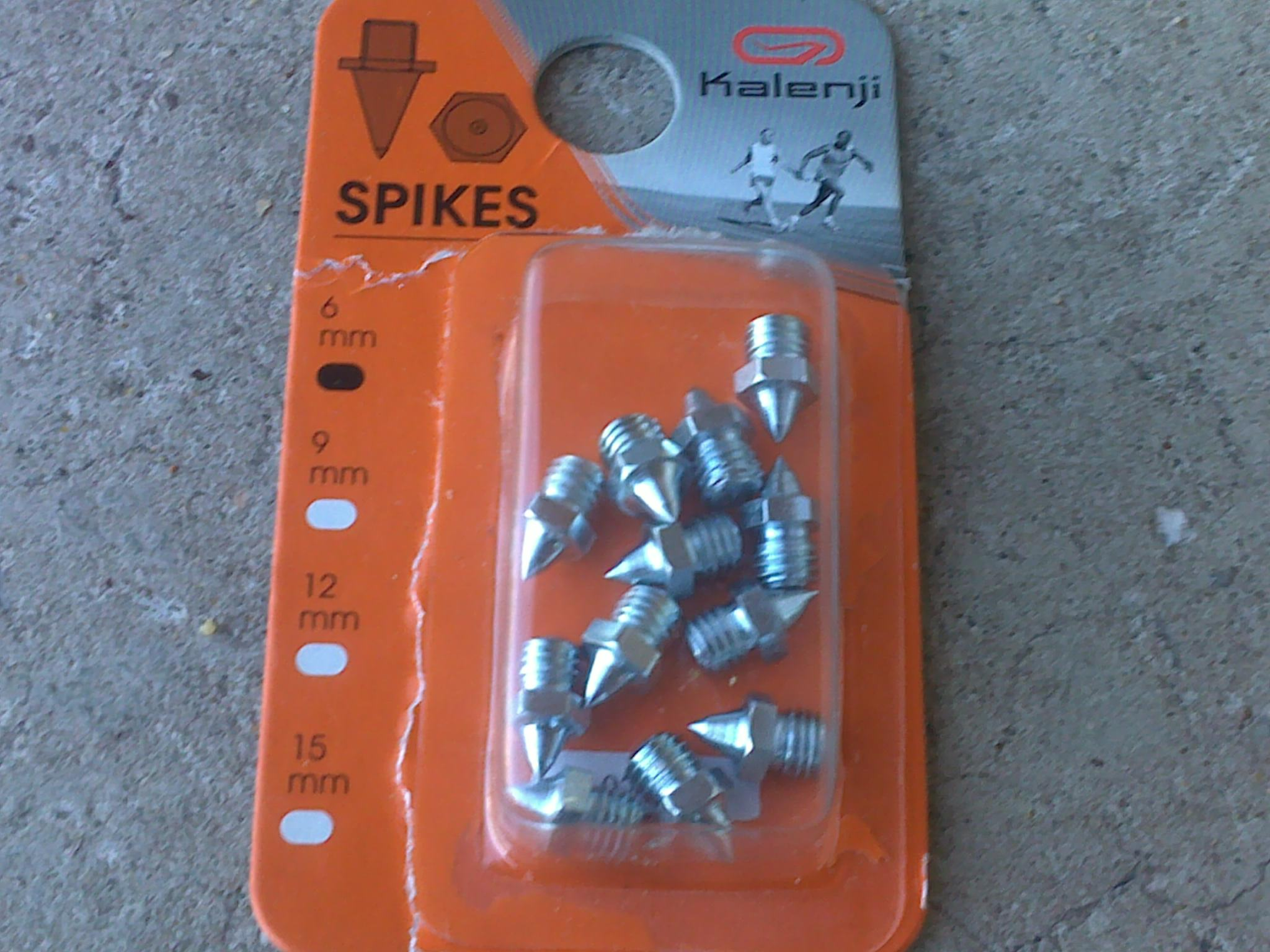 Lot of spikes 6 mm (12 spikes)